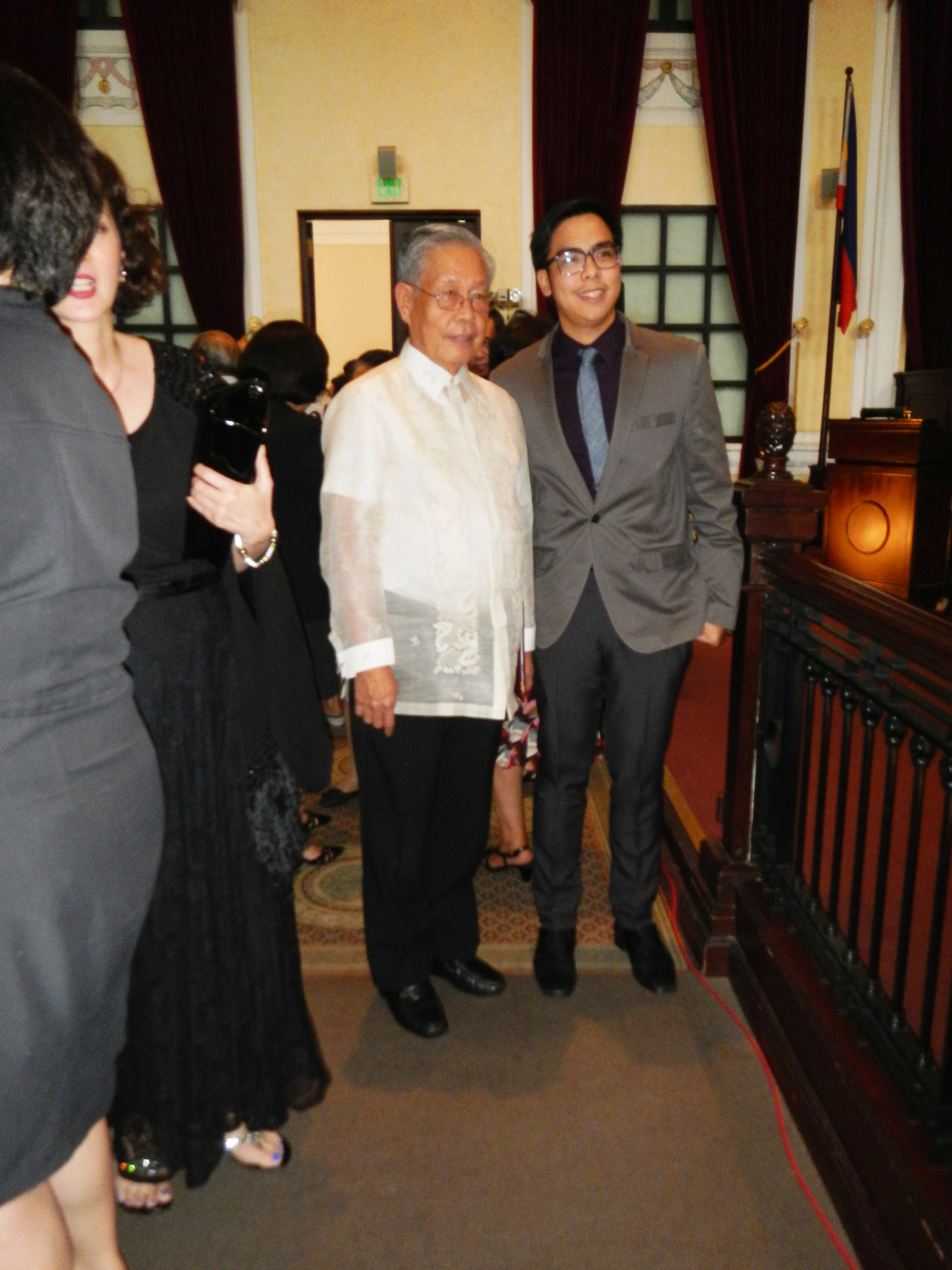 Upload Wizard photos of the - November 4, 2013, (exclusive for Wikipedia, Commons) Landmark, Historical - Supreme Court of the Philippines Eulogies [1] or Necrological service for - Andres Narvasa[2], (retired Chief Justice of the Supreme Court of the Philippines, 1991–1998 [3] [4] married to Janina Yuseco Ex-Chief Justice Narvasa given full honors at Supreme Court; Chief Justice [5] and Chief Justice Maria Lourdes Sereno[6] delivered Eulogies - responded by the Narvasa family, represented by Atty. Gregorio Narvasa II; Narvasa passed away last October 31, 2013, the 112th Associate Justice of the Supreme Court on April 11, 1986; became the 19th Chief Justice of the Philippines from Dec. 1, 1991 to Nov. 30, 1998; his cremated remains will be interred November 8, 2013 at the Our Lady of Mt. Carmel Shrine Parish Church, New Manila, in Quezon City.[7] - C justices pay tribute to ex-CJ Narvasa November 4, 2013 CJ Narvasa's remains arrive at SC with full honors SC justices pay tribute to ex-CJ Narvasa Chief Justice Maria Lourdes Sereno led other Justices' tribute at the Supreme Court on Monday, November 4.Ex-Chief Justice Narvasa honored in SC - attended by - Lucas Bersamin[8], Bienvenido L. Reyes[9], Mariano del Castillo [10] and Roberto A. Abad[11], Jose Perez, Bernardo P. Pardo[12], among others.SC honors late CJ Narvasa Binays pay tribute to ex-CJ Narvasa Website, Supreme Court of the Philippines (Ret.) Chief Justice Andres Narvasa, 84.